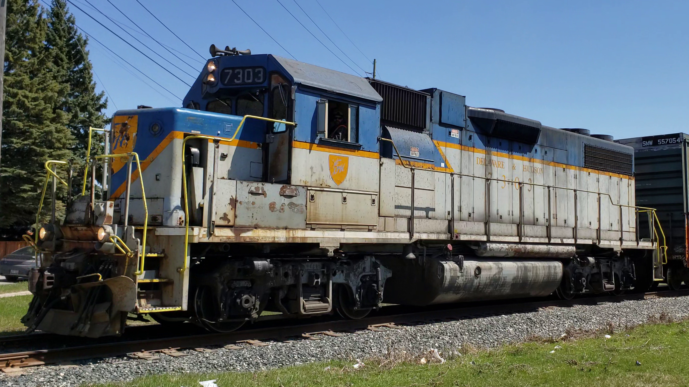 Delaware & Hudson 7303 pulling boxcars on the CP Arborg Subdivision in Winnipeg.